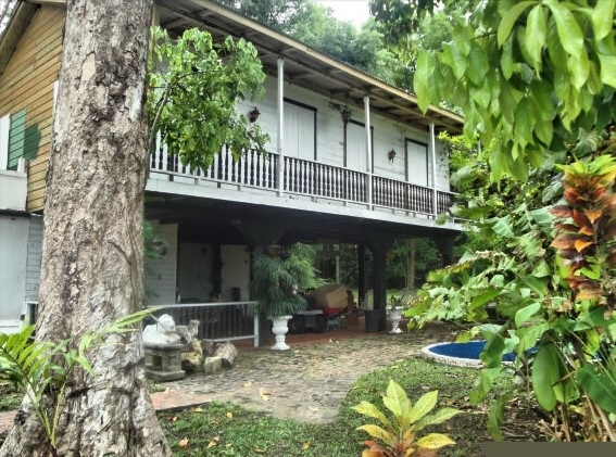 Museo Hacienda La Enriqueta in Moca, Puerto Rico